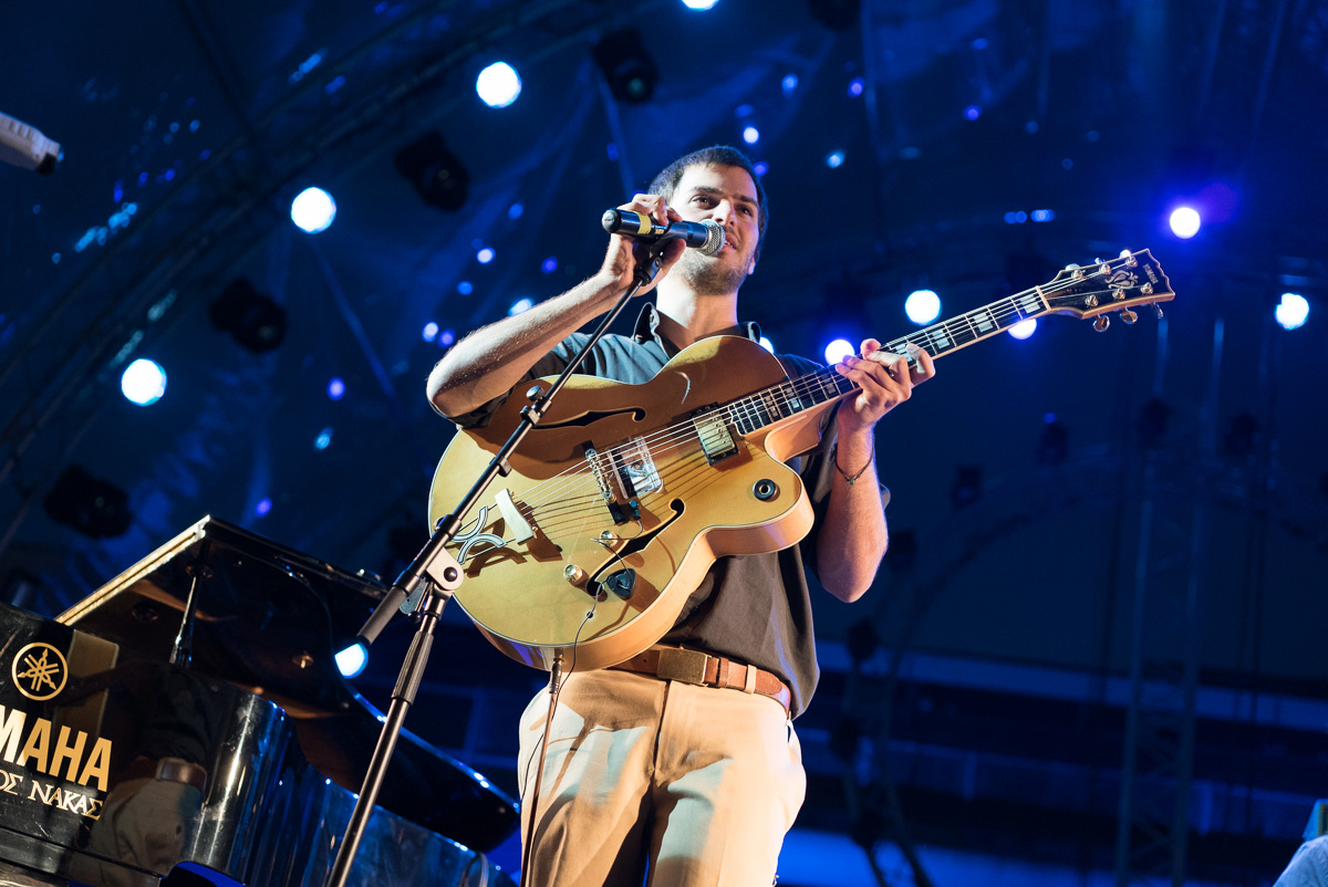 Yoav Eshed in Athens Jazz Festival 2015